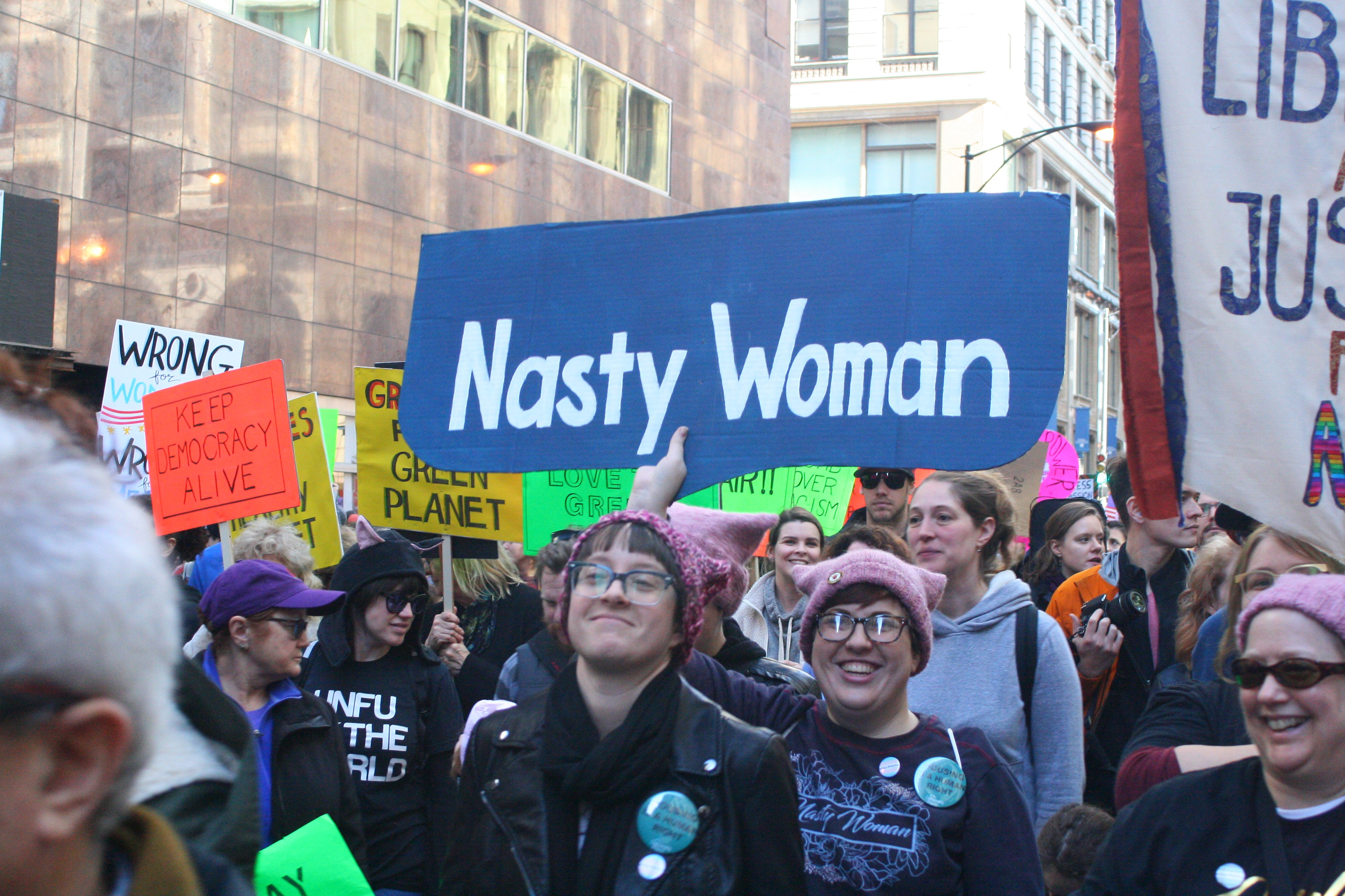 Women's March, January 21 2017, Chicago